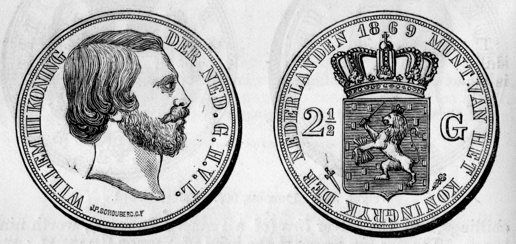 A Dutch silver 2 ½ guilder piece of 1869, with the head of William III. "Weight .804, fineness 944. Value 4s 3d." Both sides shown